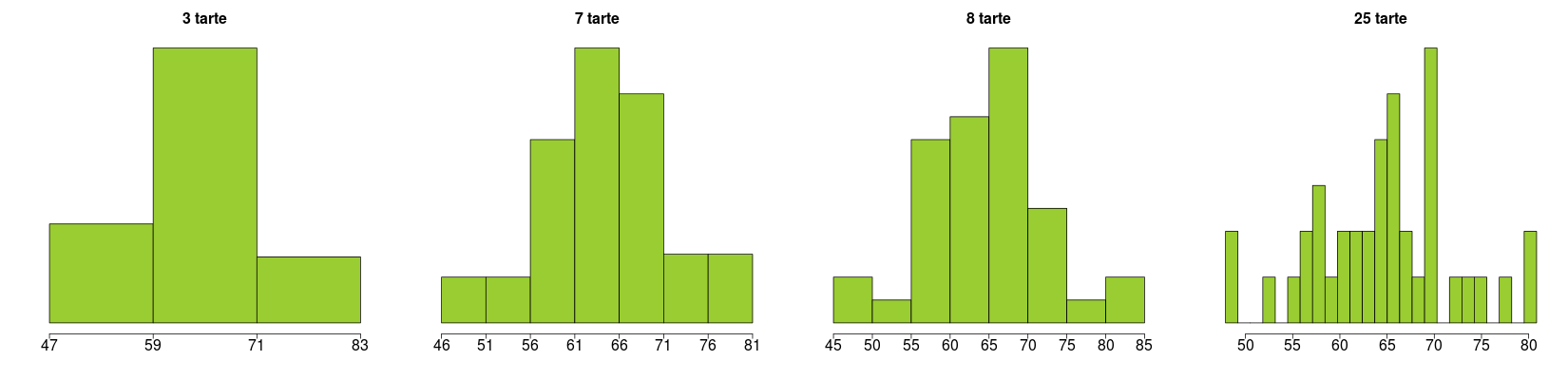 This chart was created with R. Histograms with different bin numbers for the same data. Interpretation in quite different in each case. Source code: datuak=c(72.26399,57.00617,69.91893,62.28538,64.23263,66.36837,65.73023,59.25491,47.87921, 80.22539,55.26381,70.27965,64.78872,65.03225,48.90518,52.30302,73.17672,57.08555,67.52380, 65.37827,80.83639,57.30258,69.29734,68.39086,57.23719,63.02278,66.23289,57.89146,61.46943, 74.39894,64.11941,60.37424,70.17998,77.60188,69.26936,64.68734,69.46779,65.97961,63.06862, 59.96505) png(filename = "tarte_kopuru_desberdinak_histograma_01.png", width=1650, height=400) par(mfcol=c(1,4)) tarteak1=c(46,51,56,61,66,71,76,81) tarteak2=c(45,50,55,60,65,70,75,80,85) tarteak3=c(47,59,71,83) library(Rlab) #Package needed for hplot hplot(datuak,breaks=tarteak3,col=c("yellowgreen"),xaxt="n",yaxt="n",xlab="",ylab="",main="3 tarte",cex.main=2) axis(1,at=tarteak3,cex.axis=2) hplot(datuak,breaks=tarteak1,col=c("yellowgreen"),yaxt="n",xaxt="n",xlab="",ylab="",main="7 tarte",cex.main=2) axis(1,at=tarteak1,cex.axis=2) hplot(datuak,breaks=tarteak2,col=c("yellowgreen"),yaxt="n",xaxt="n",xlab="",ylab="",main="8 tarte",cex.main=2) axis(1,at=tarteak2,cex.axis=2) hplot(datuak,nclass=25,col=c("yellowgreen"),yaxt="n",xlab="",ylab="",main="25 tarte",cex.axis=2,cex.main=2) #hplot forces numbers of bis (hist suggests it) dev.off